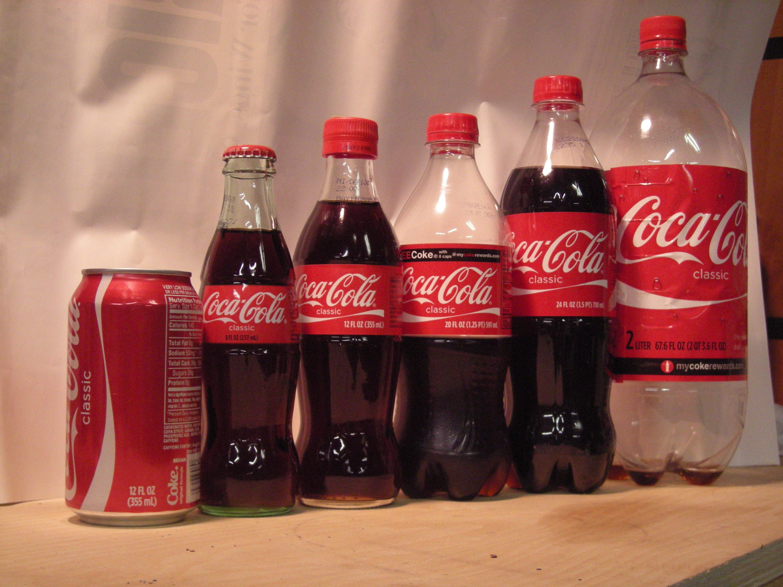 The various sizes of Coca-Cola available in the USA. Left to right: 12 oz can; 8 oz glass bottle; 12 oz resealable glass bottle; 20 oz, 24 oz and 2 Liter plastic bottles